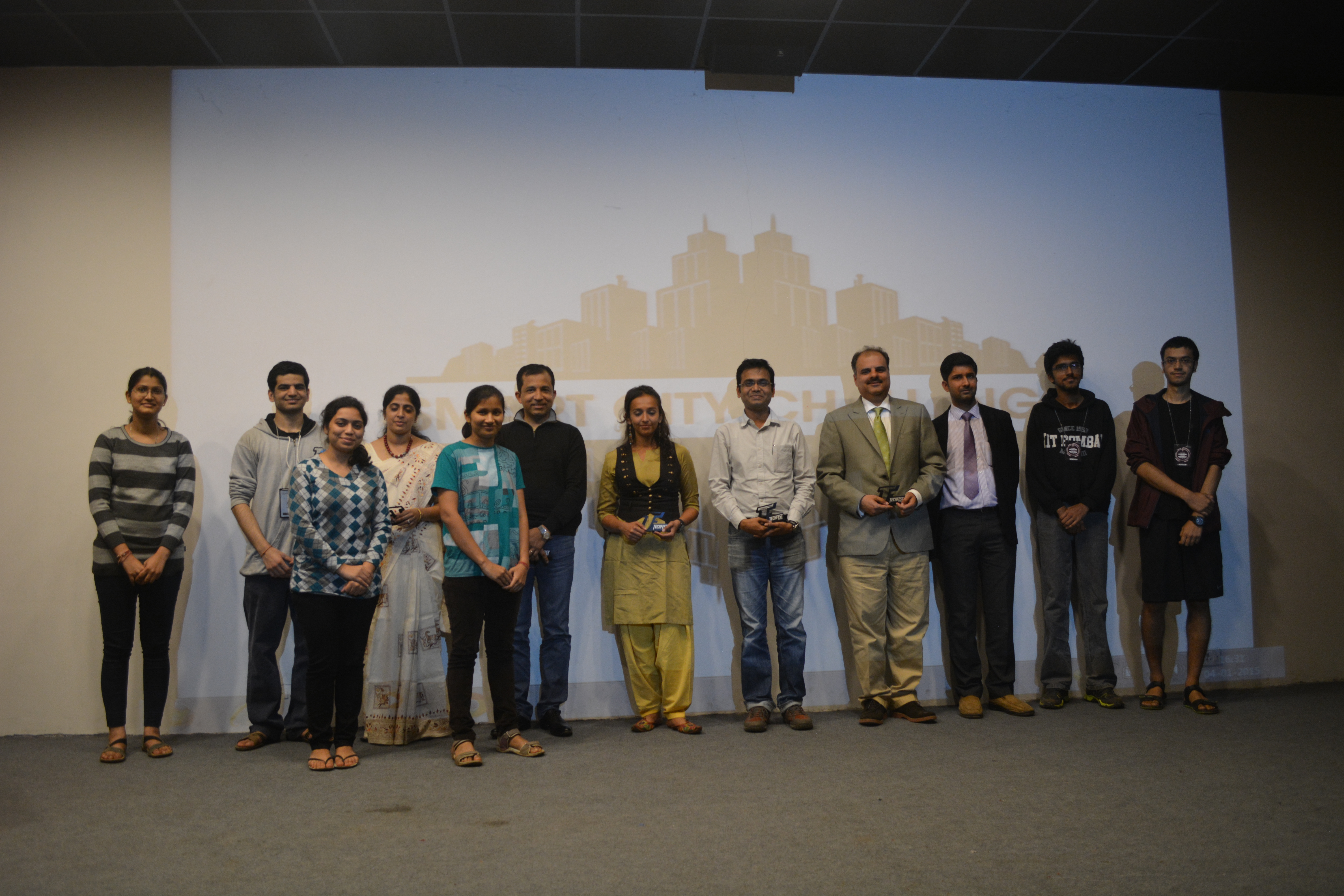 Jury members of Smart City Challenge, Techfest-2015